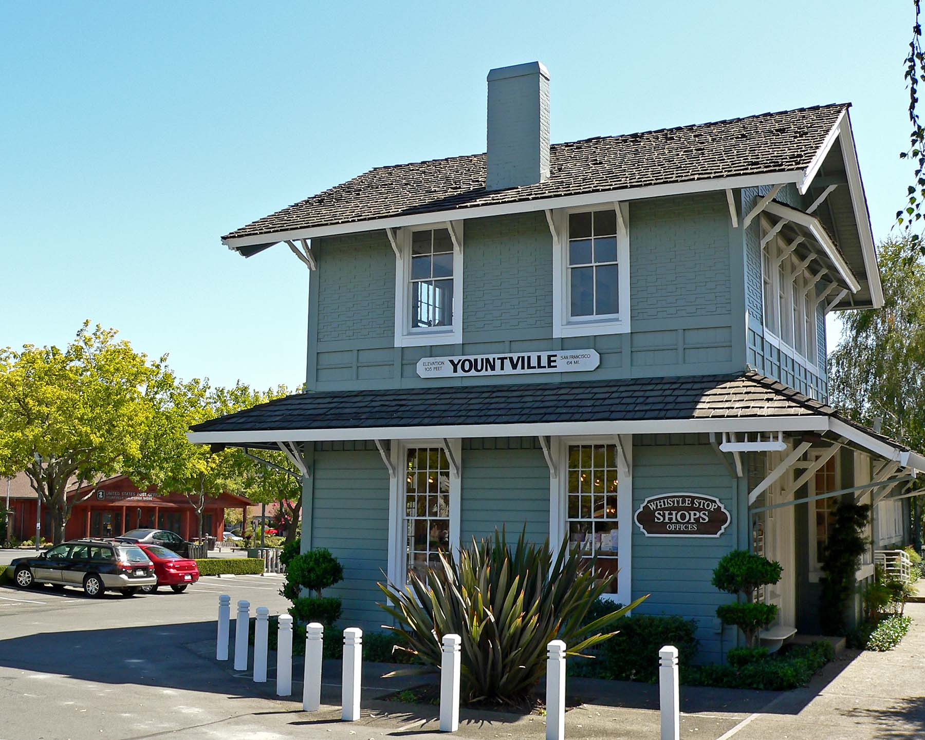 Photo of old rail station, Yountville, California